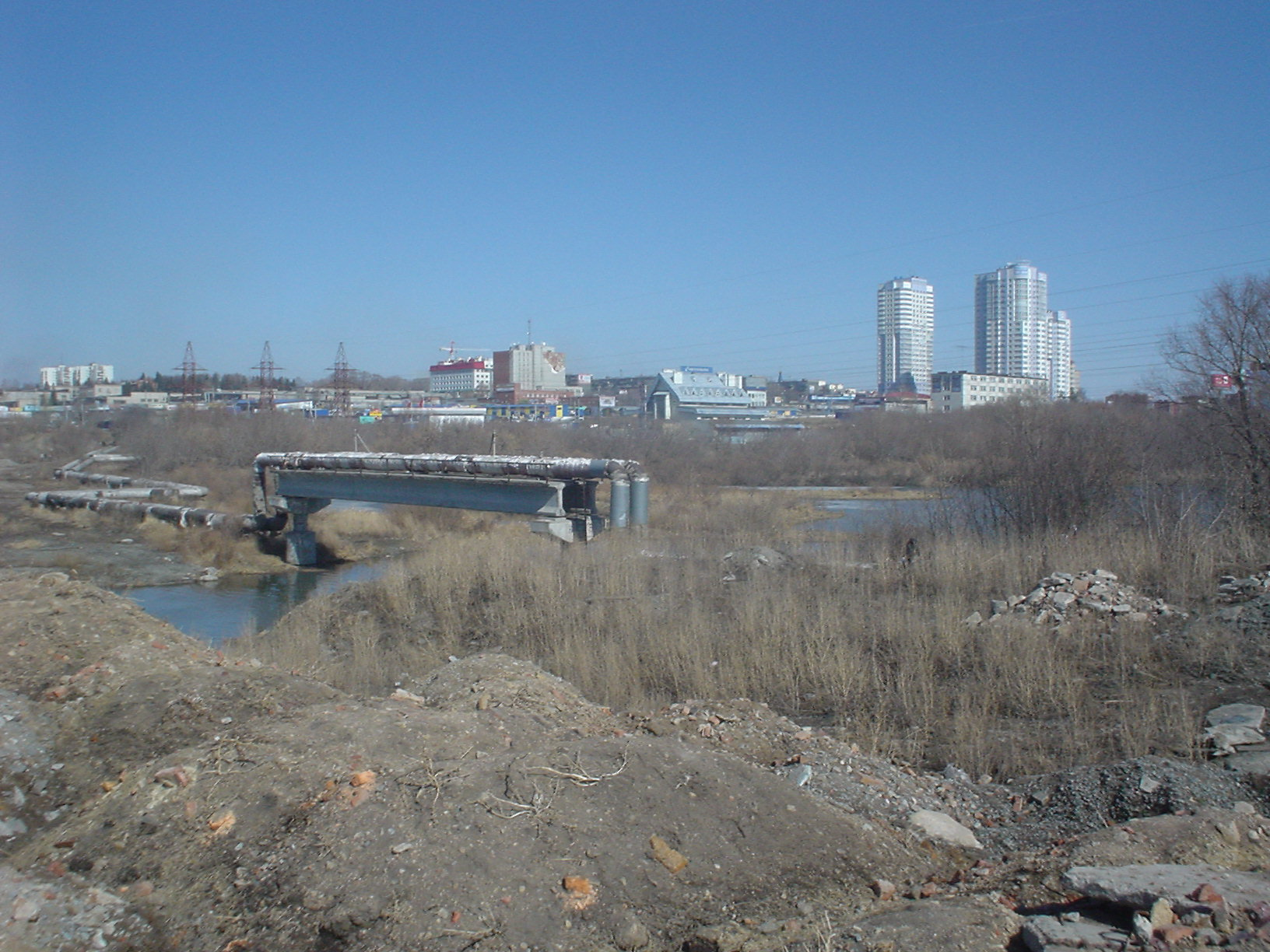 Place of future bridge Kashirynyh-Engelsa, Chelyabinsk, Russia